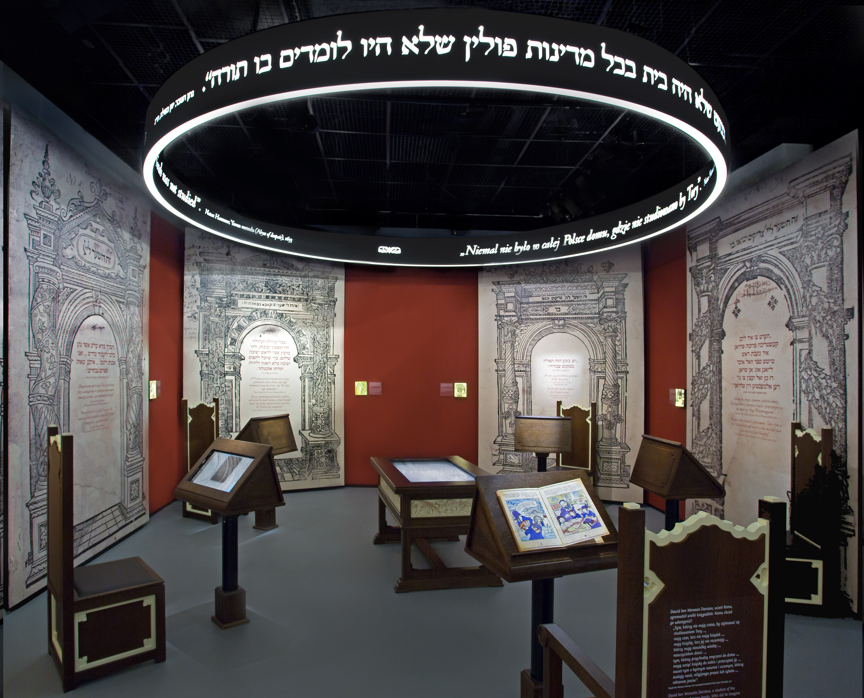 Main exhibition of the Museum of the History of Polish Jews in Warsaw. "Paradisus Iudaeorum" gallery